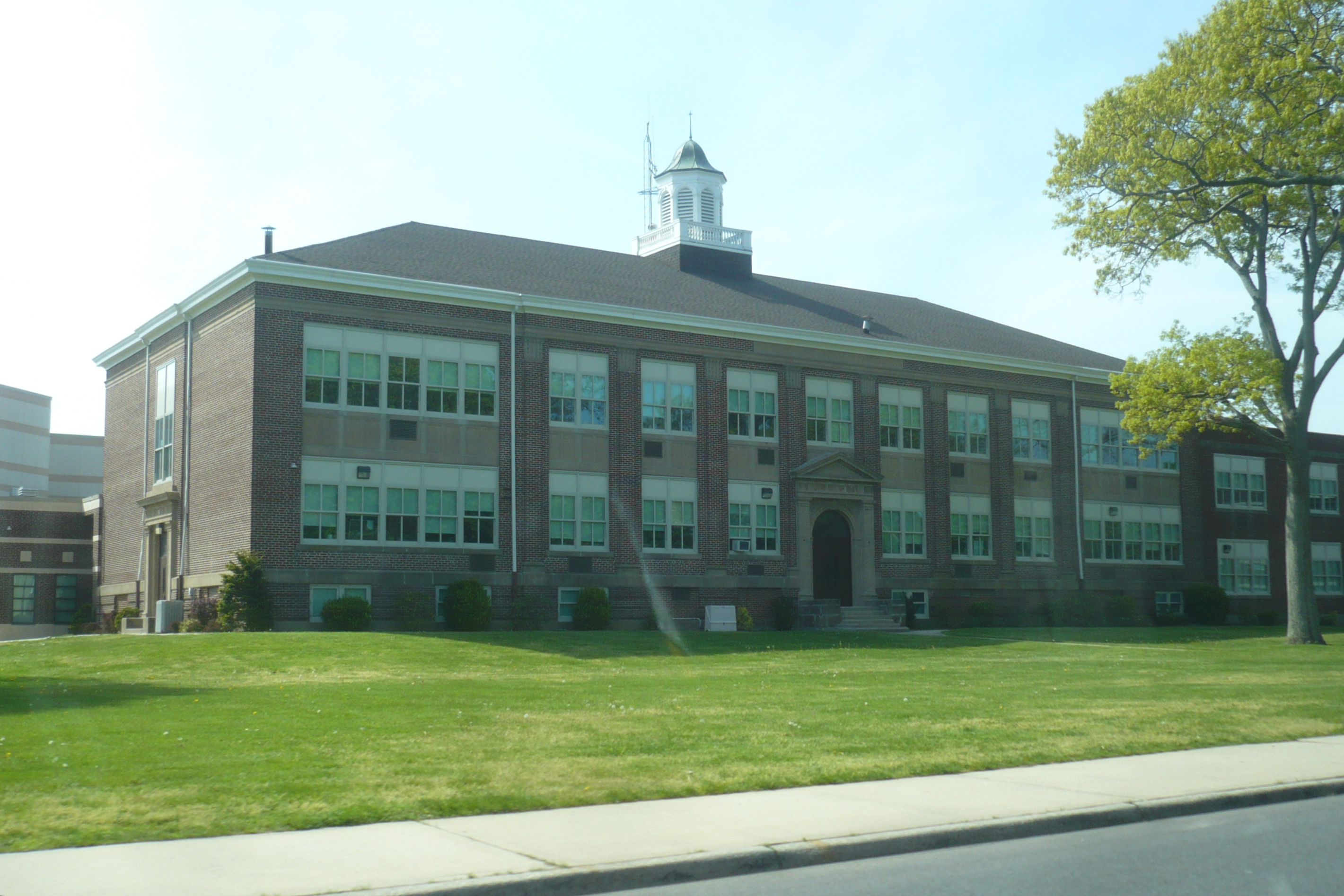 This shows the original building, constructed in 1927, on the corner of Snedecor Avenue and Academy Street looking northwest. An addition, constructed c. 1940, and the auditorium, constructed in 2004 are seen at the extreme left and right of the original school building.